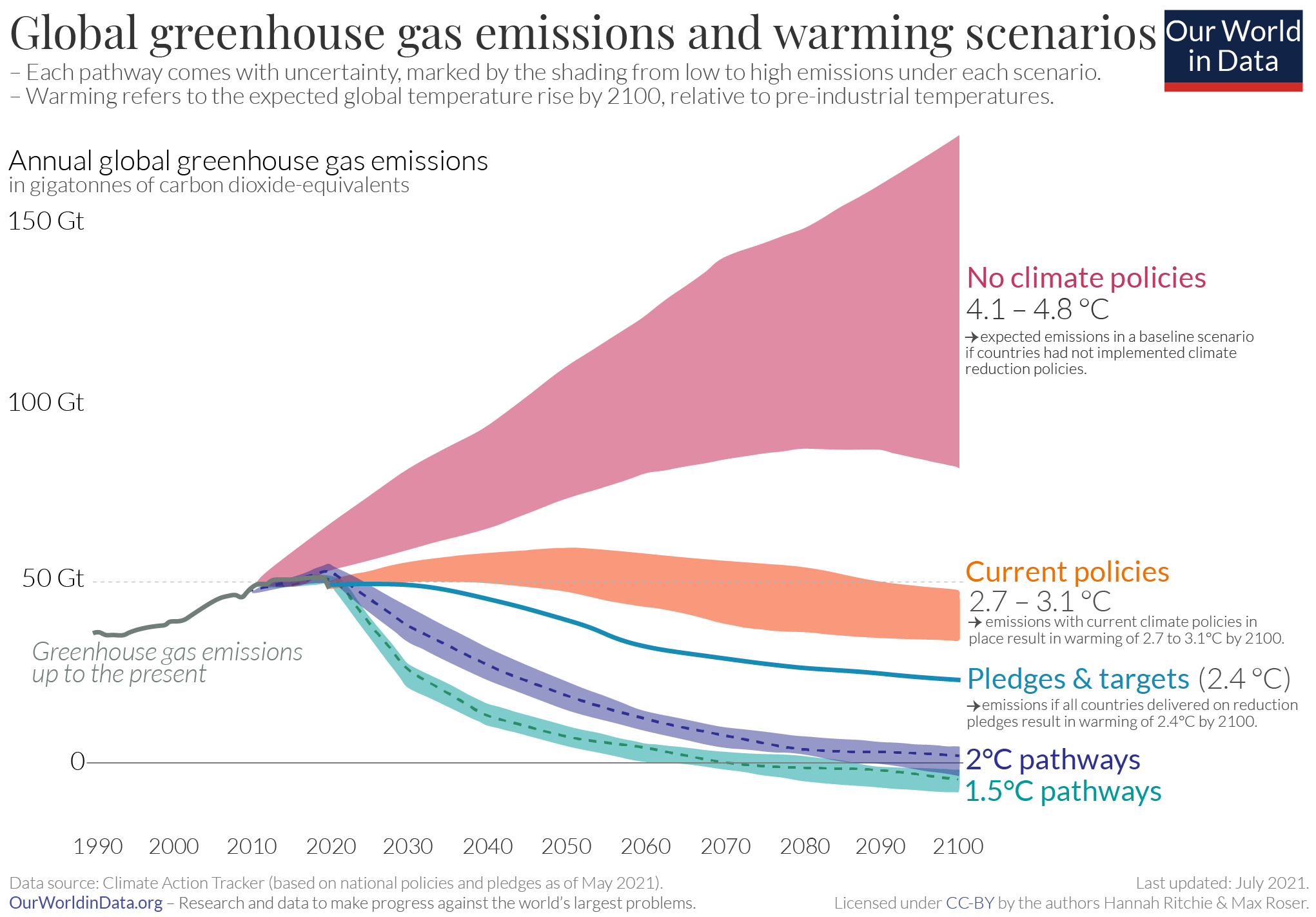 What does the future of our carbon dioxide and greenhouse gas emissions look like. In the visualization we show a range of potential future scenarios of global greenhouse gas emissions (measured in gigatonnes of carbon dioxide equivalents), based on data from Climate Action Tracker. Interactive data of these pathways can be found here. Here, five scenarios are shown: No climate policies: projected future emissions if no climate policies were implemented; this would result in an estimated 4.1-4.8°C warming by 2100 (relative to pre-industrial temperatures) Current climate policies: projected warming of 3.1-3.7°C by 2100 based on current implemented climate policies National pledges: if all countries achieve their current targets/pledges set within the Paris climate agreement, it’s estimated average warming by 2100 will be 2.6-3.2°C. This will go well beyond the overall target of the Paris Agreement to keep warming “well below 2°C”. 2°C consistent: there are a range of emissions pathways that would be compatible with limiting average warming to 2°C by 2100. This would require a significant increase in ambition of the current pledges within the Paris Agreement. 1.5°C consistent: there are a range of emissions pathways that would be compatible with limiting average warming to 1.5°C by 2100. However, all would require a very urgent and rapid reduction in global greenhouse gas emissions.